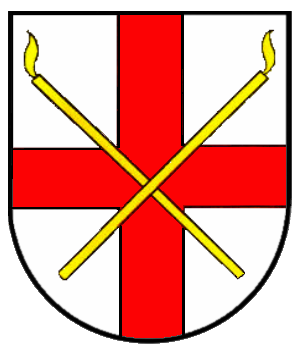 Coat of arms of Moos